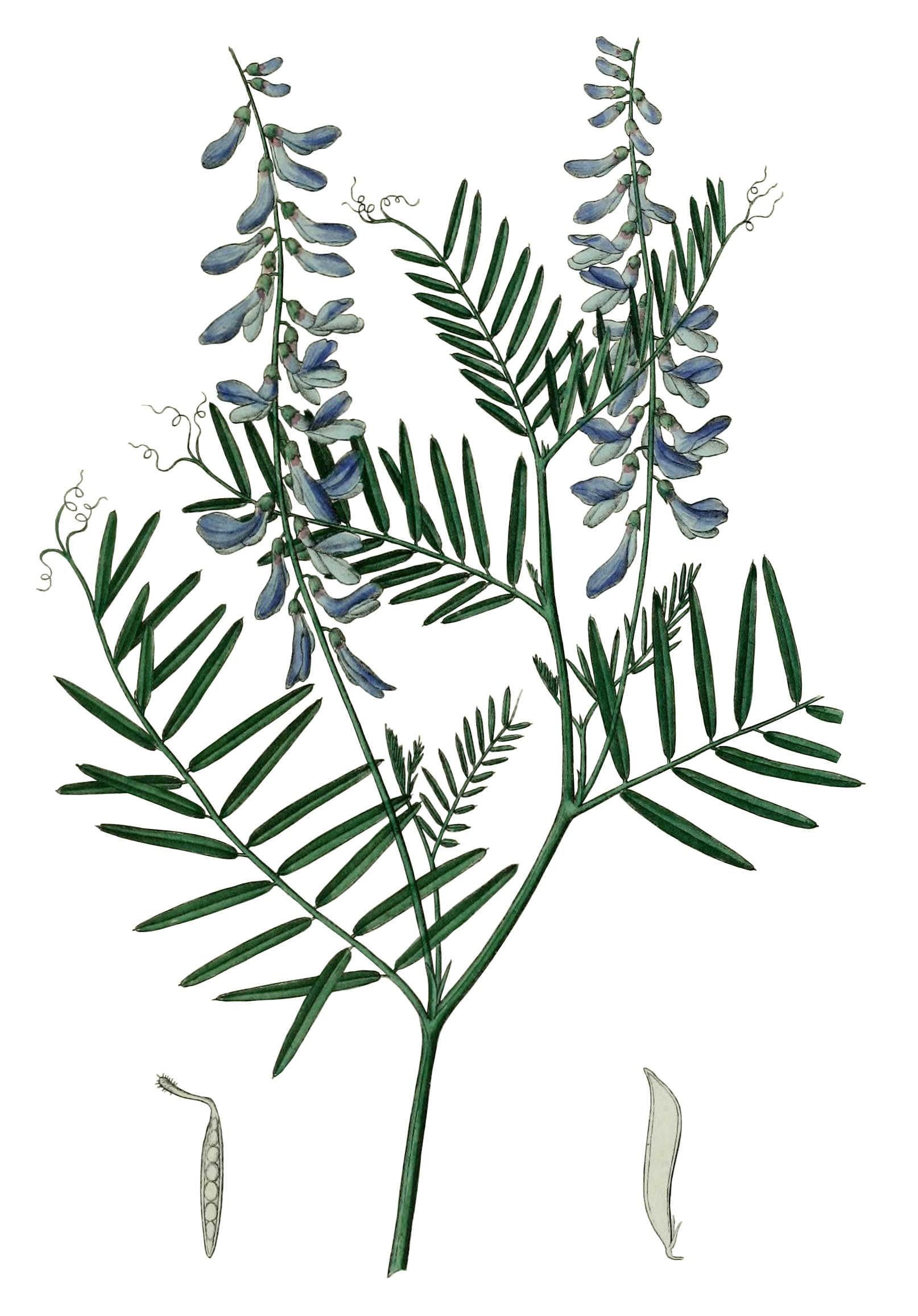 Illustration of Vicia tenuifolia Roth